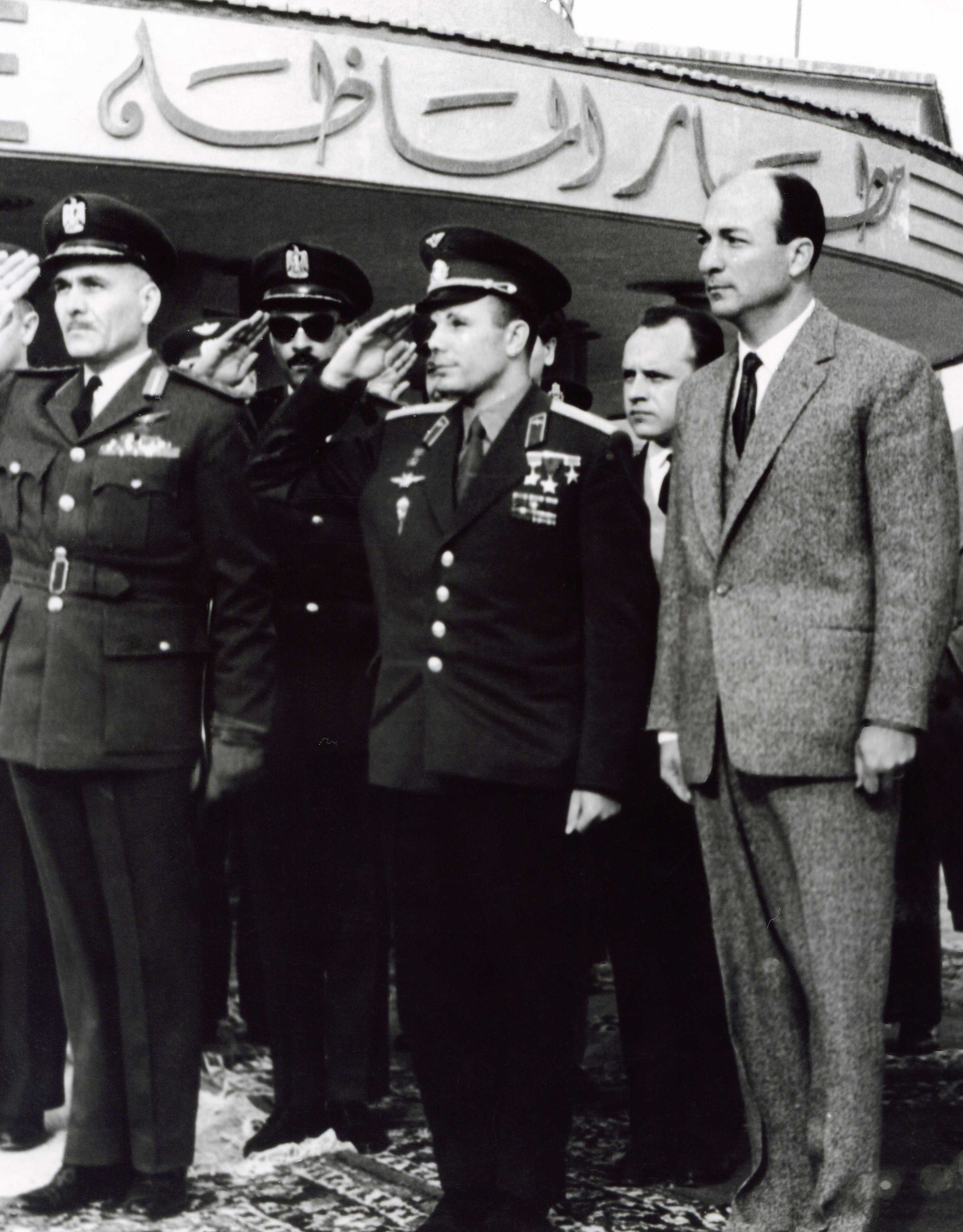 Yuri Gagarin(يوري جاجارين) and Zakaria Mohieddin, Cairo Almaza Air Base, Egypt, 05.02.1962